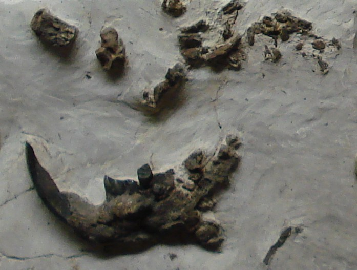 fossil of steneofiber